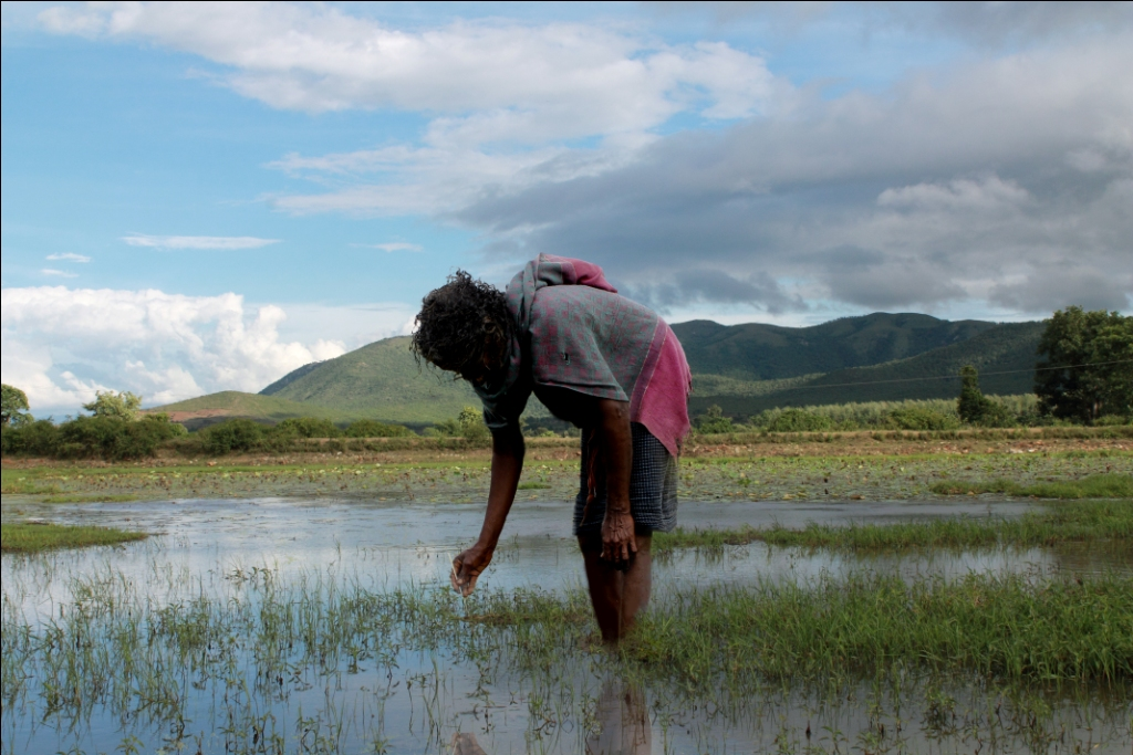 Tribal woman catching crabs in the paddy fields in wayanad